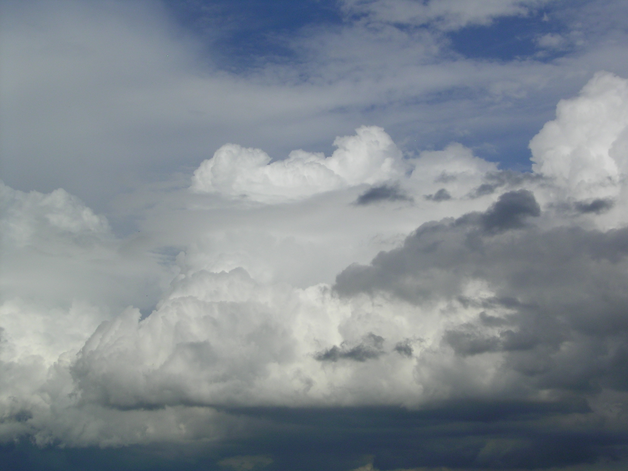 Cumulus mediocris in the foregound and cumulus congestus with cumulus velum at the back.